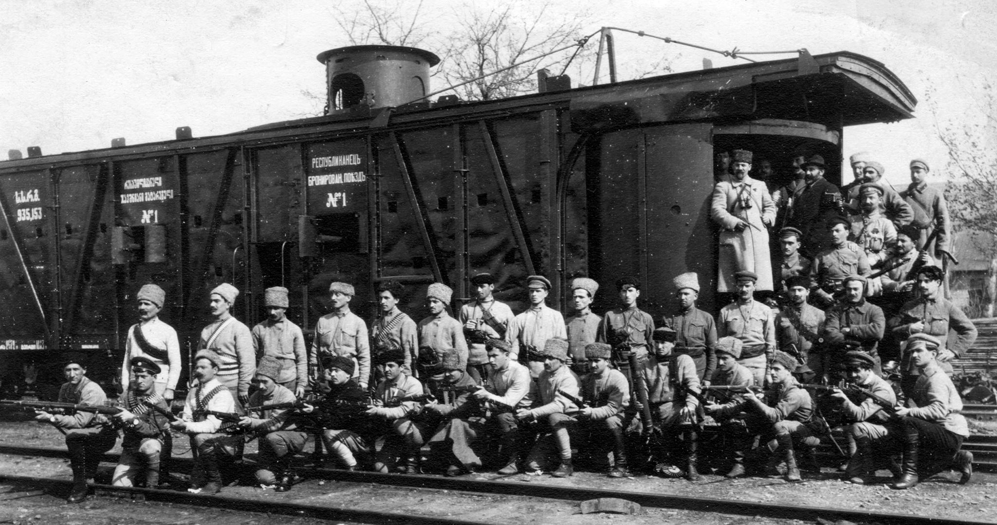 Ironclad Train of Georgian Democratic Republic